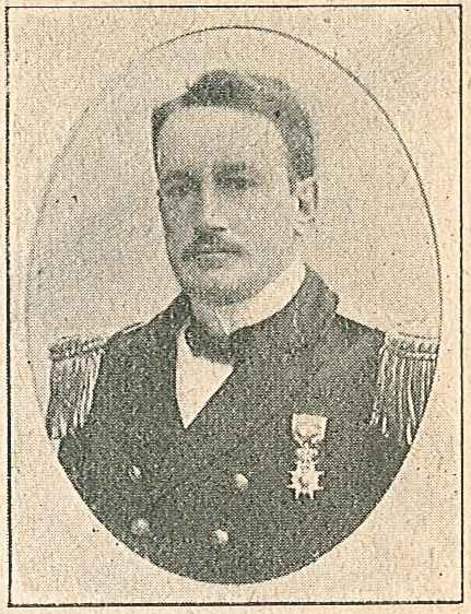 Svante Natt och Dag (1861-1906), Swedish nobleman, naval officer and member of parliament.